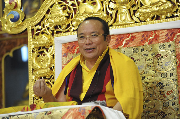 Chamgon Kenting Tai Situ Rinpoche 2015 © - Palpung Web Center